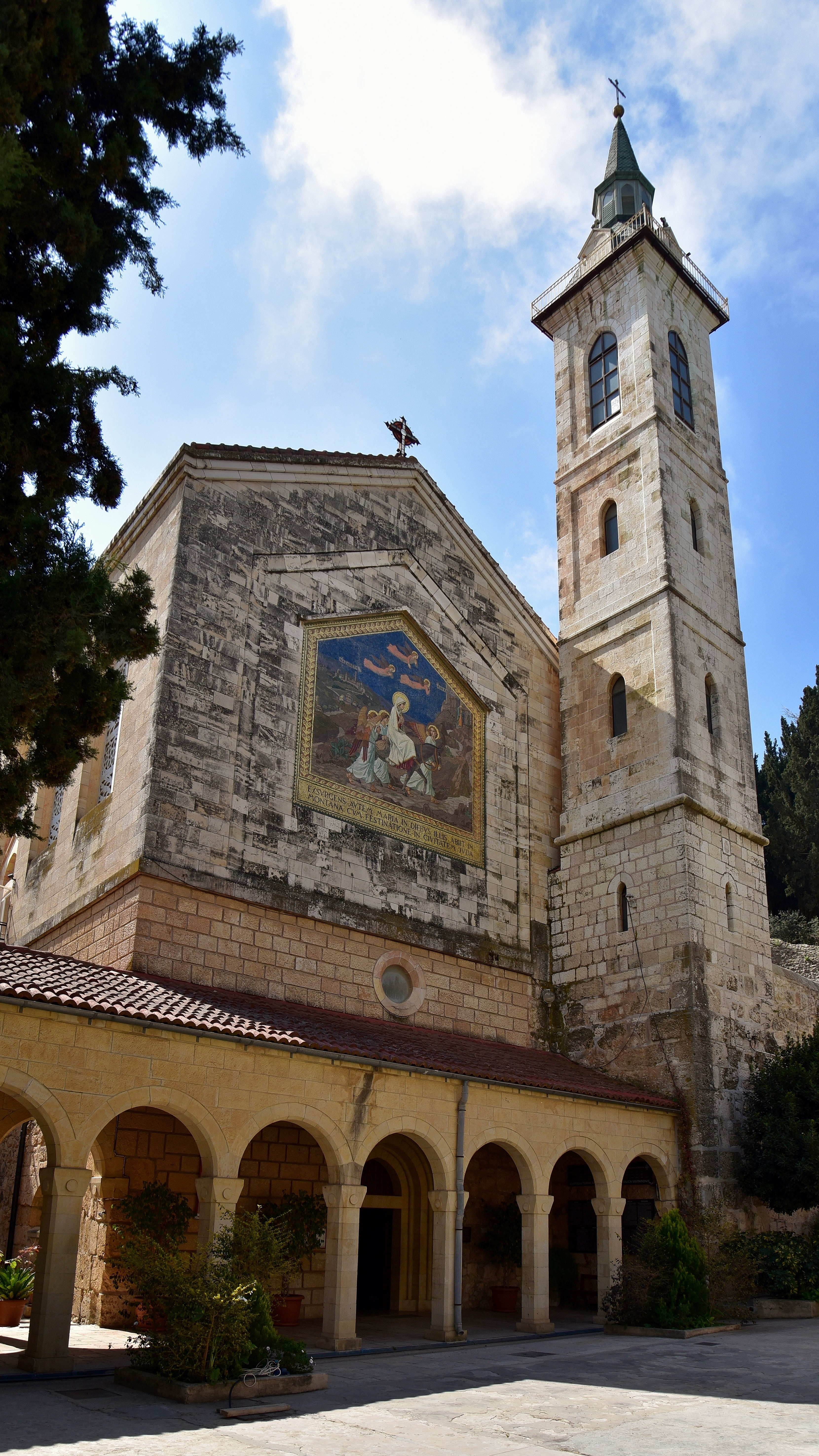 View of the facade of the Church of the Visitation, Ein Karem, Jerusalem